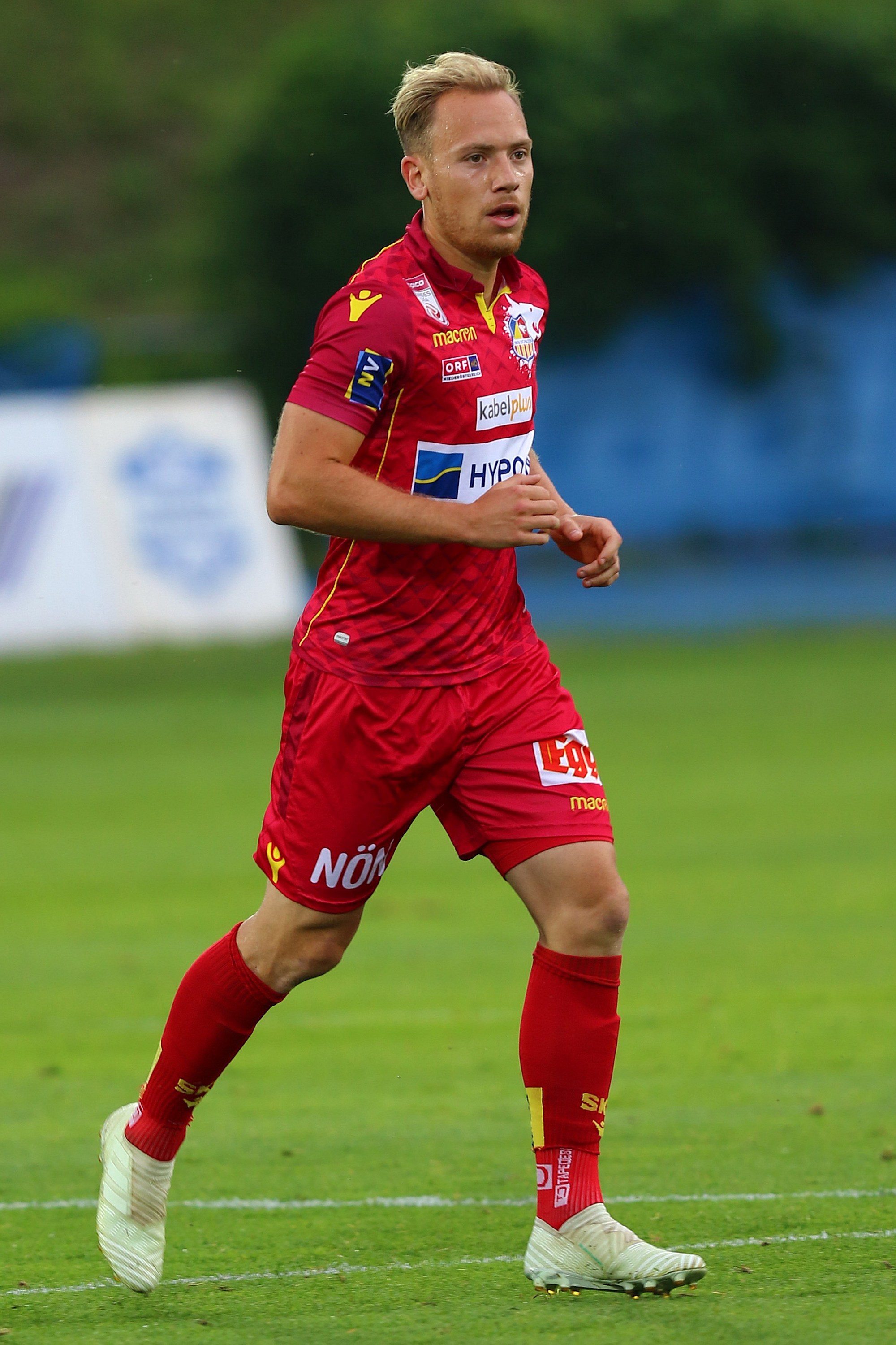 Football qualification match for the Austrian Bundesliga - SC Wiener Neustadt (white shirts) vs. SK St. Pölten (red shirts) 0-2. – The photo shows Dominik Hofbauer (SKN St. Pölten).